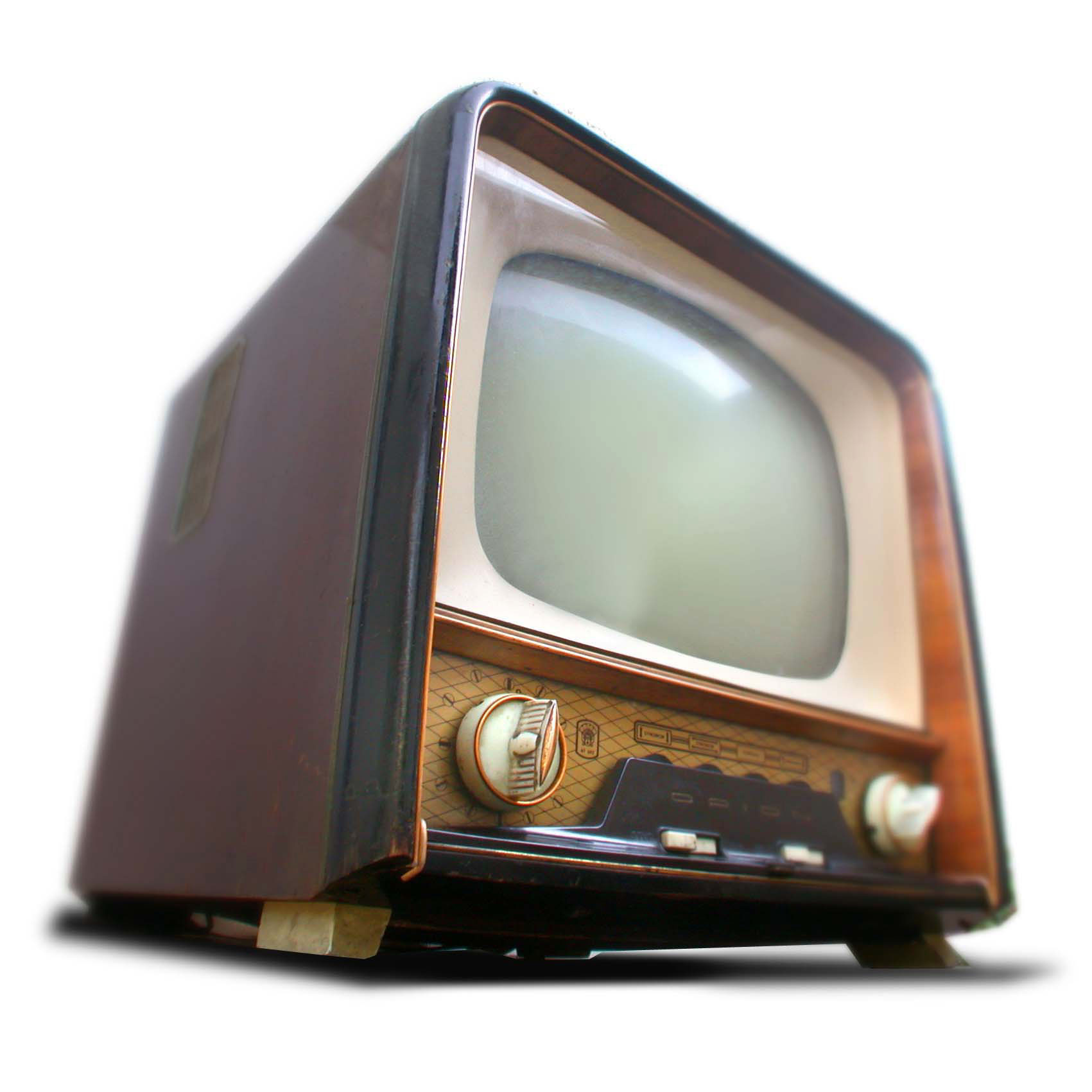 Hungarian television set from 1959. ORION AT 602 - 1959.